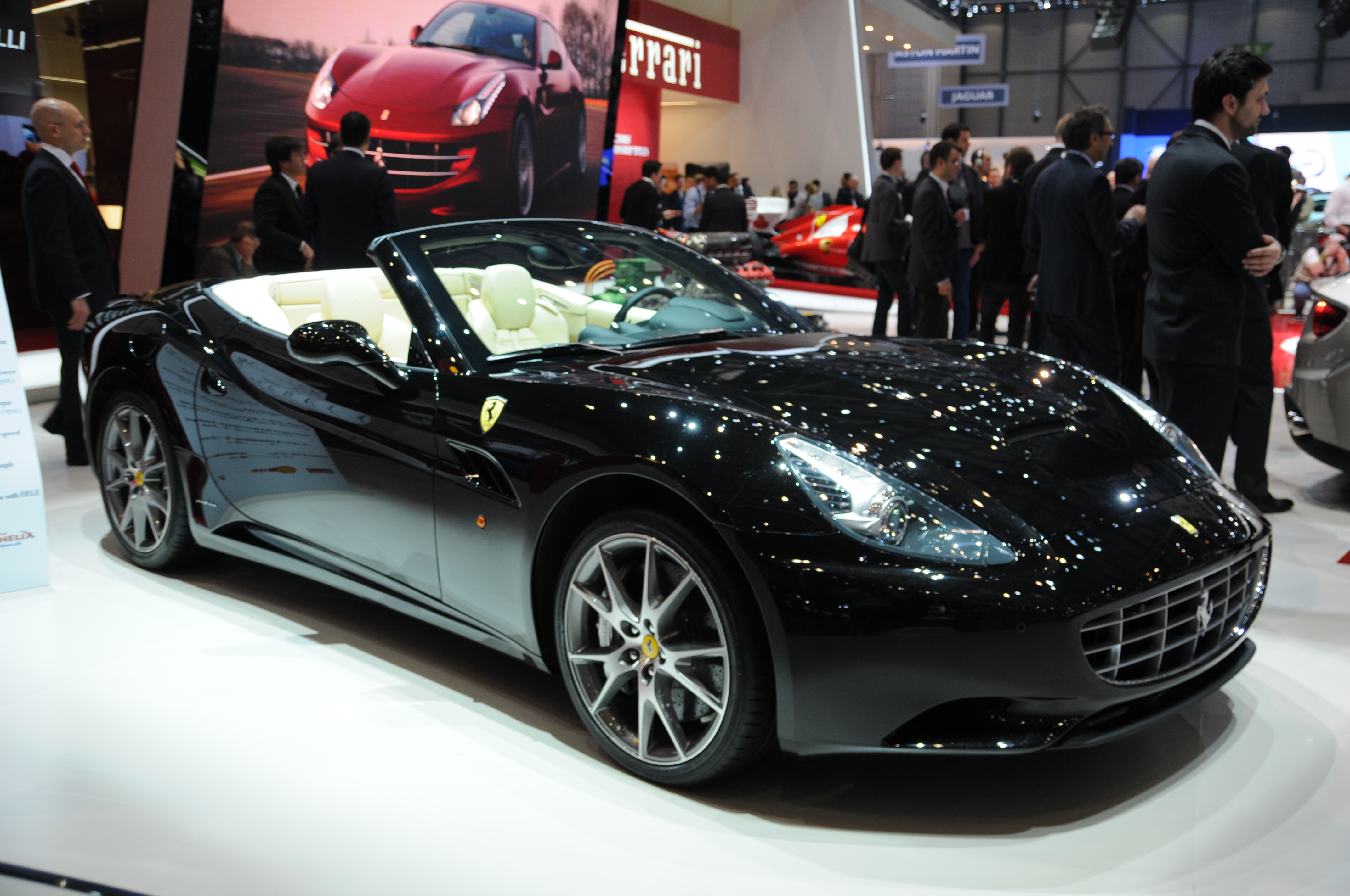 Ferrari California at the Geneva Motor Show 2013 (photo taken on the first press day which was the World Premiere of this car)